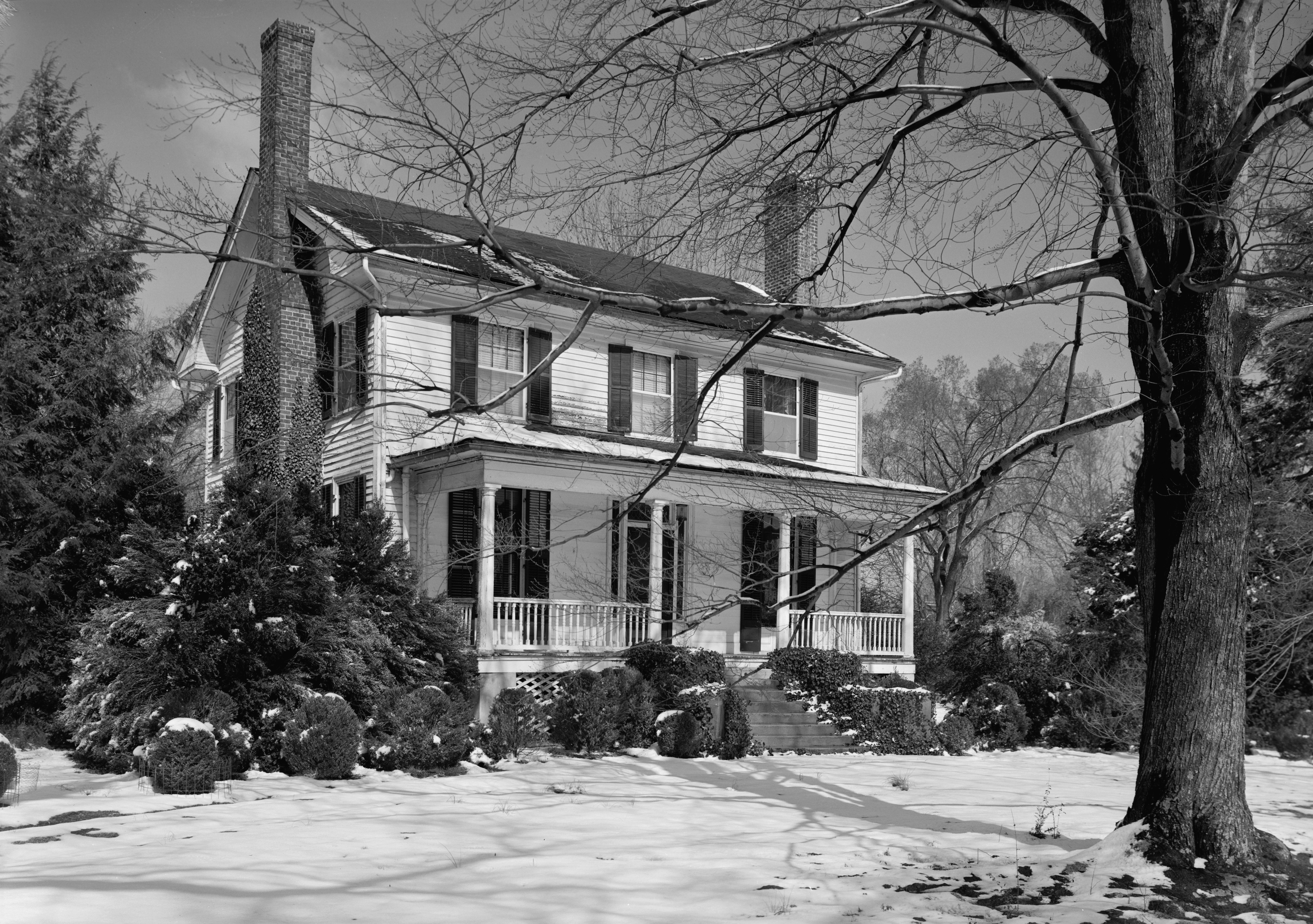 Nash-Hooper House, 118 West Tryon Street, Hillsborough, Orange County, NC. 1772 built home of General Francis Nash, William Hooper, and Govenor William A.Graham.